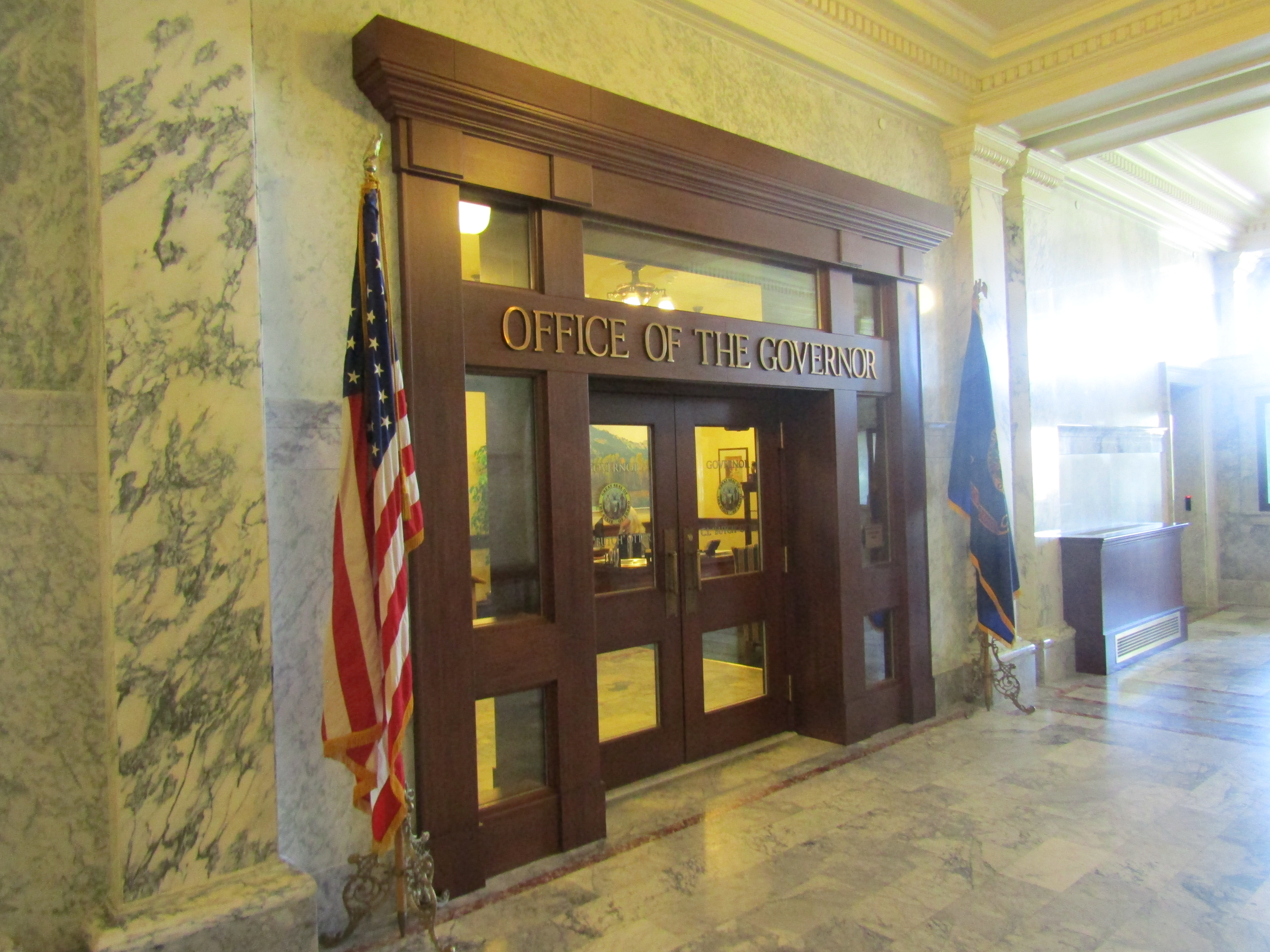 Idaho State Capitol / July 16, 2018